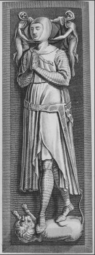 Edmund Crouchback, 1st Earl of Lancaster, 2nd son of King Henry III. Westminster Abbey